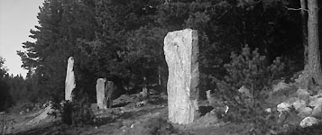 Runestones Sö 173 (center left) and Sö 374 (center right) in Tystberga in 1939. The leftmost stone is a standing stone (Tystberga 103:3).